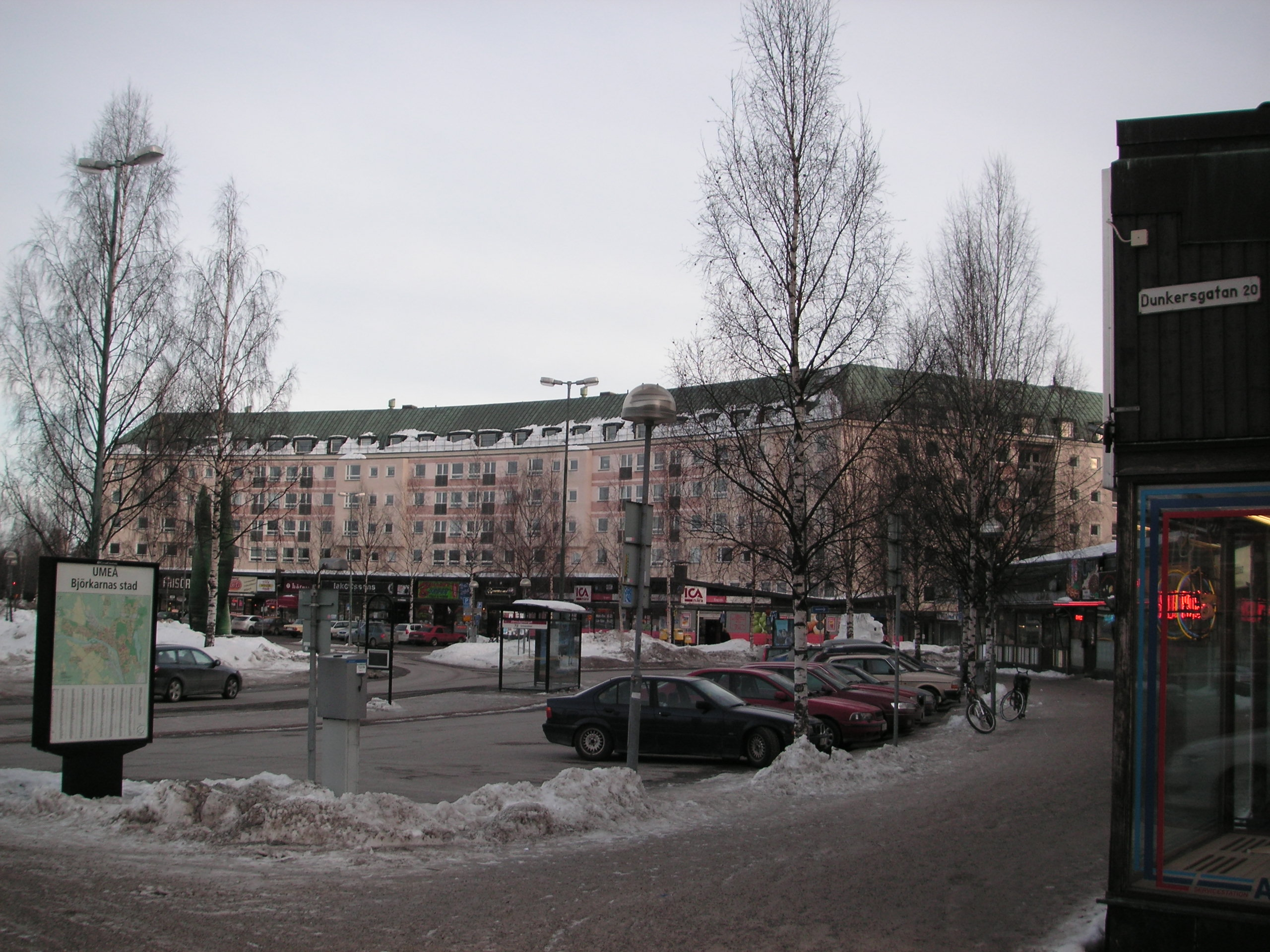 Järnvägstorget, Umeå, Sweden.